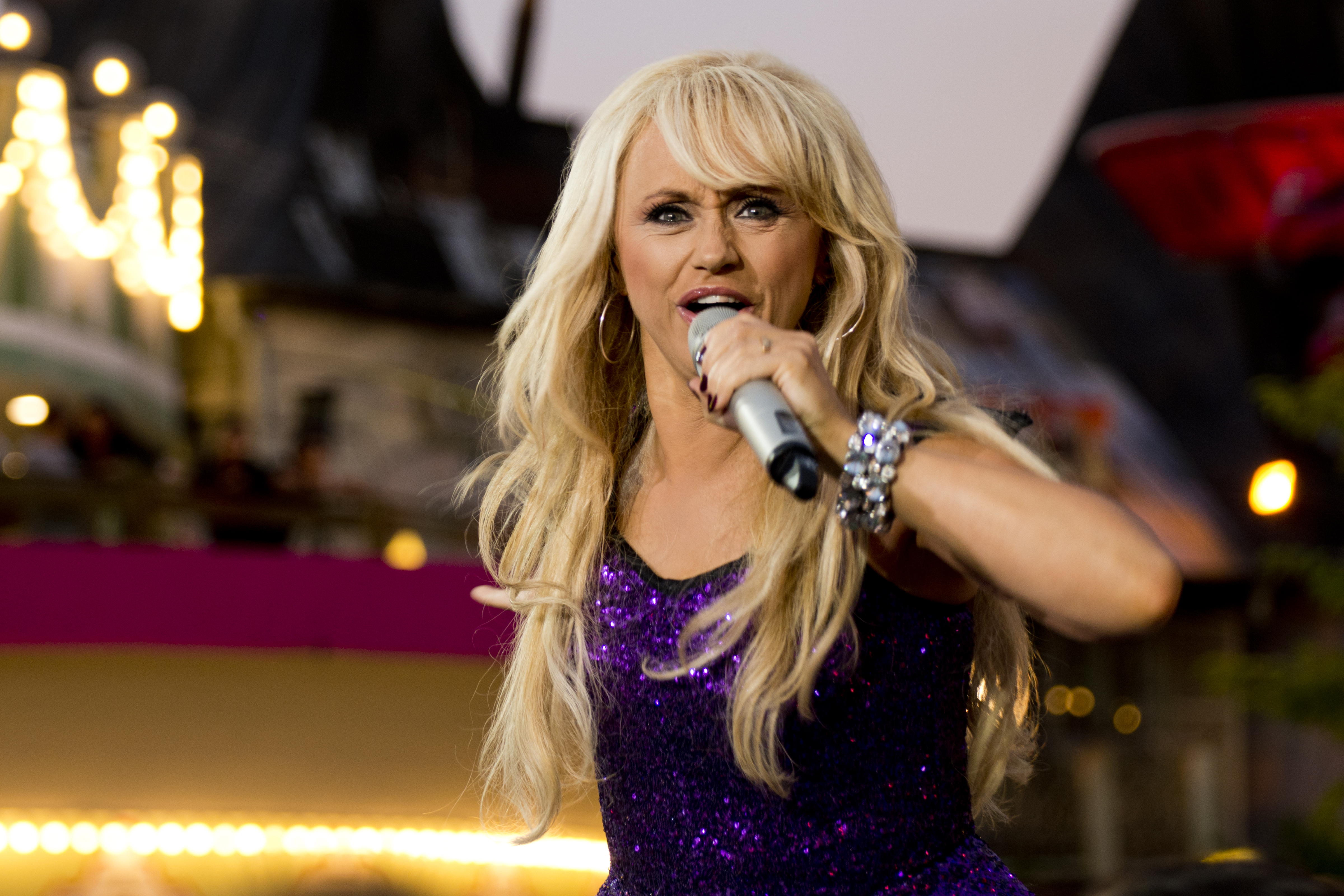 Nanne Grönvall guest at Sommarkrysset 2013 on Gröna Lund in Stockholm (Sweden)